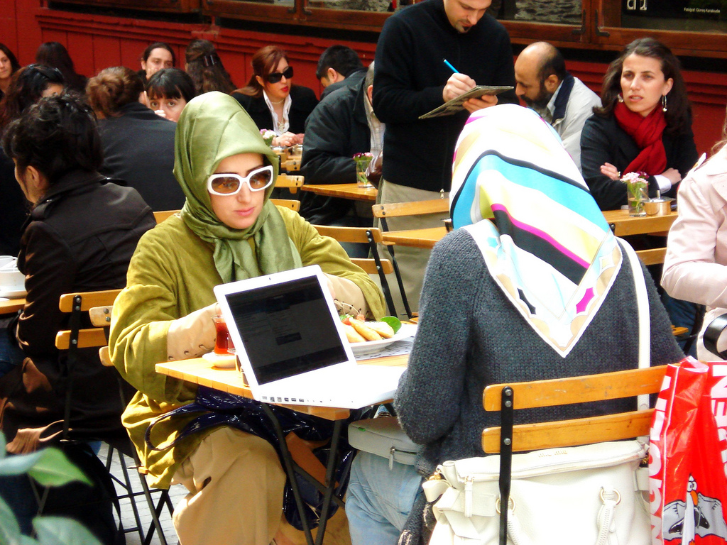 People at a cafeteria in Istanbul.